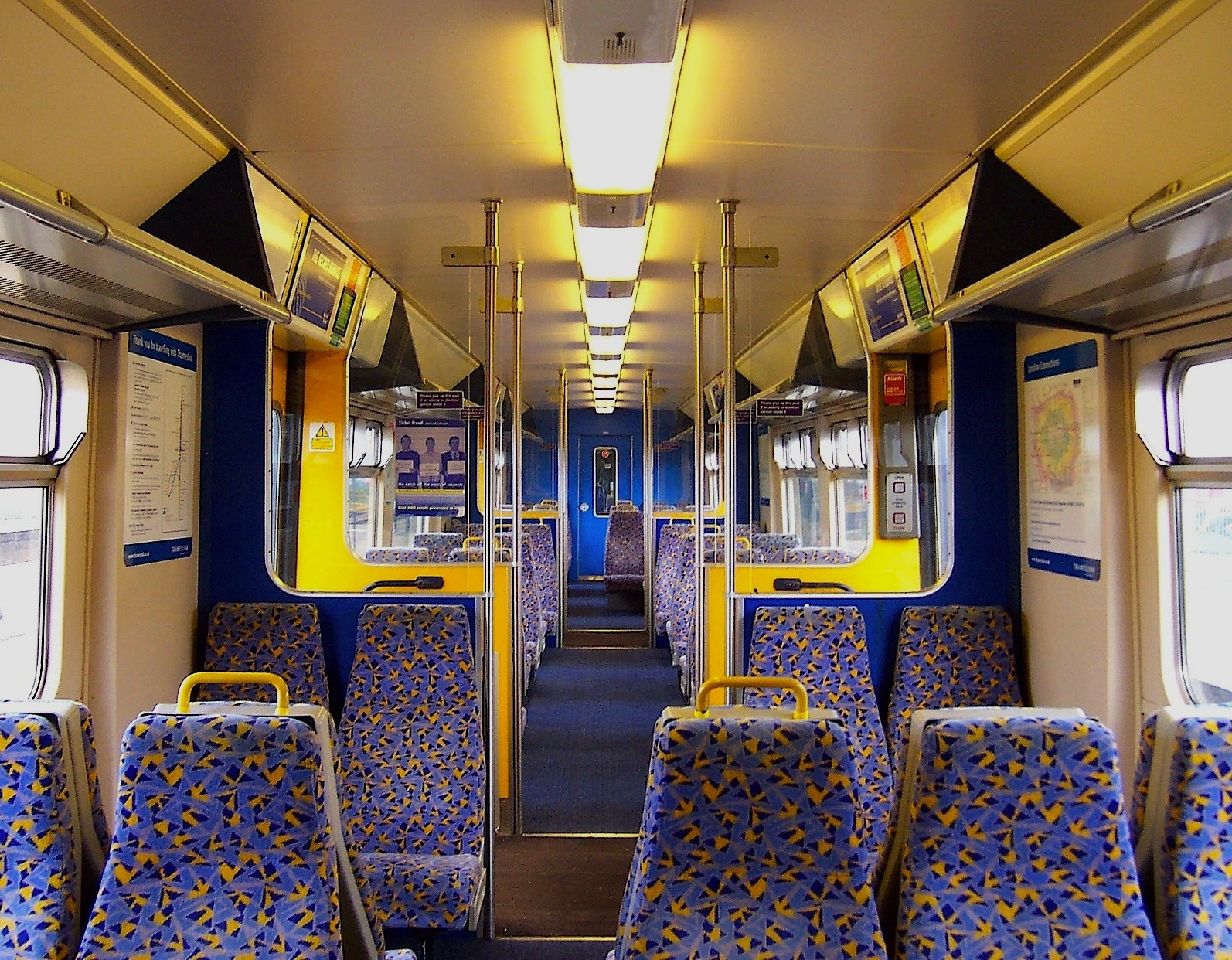 Thameslink Rail Standard Class interior of Class 319/4